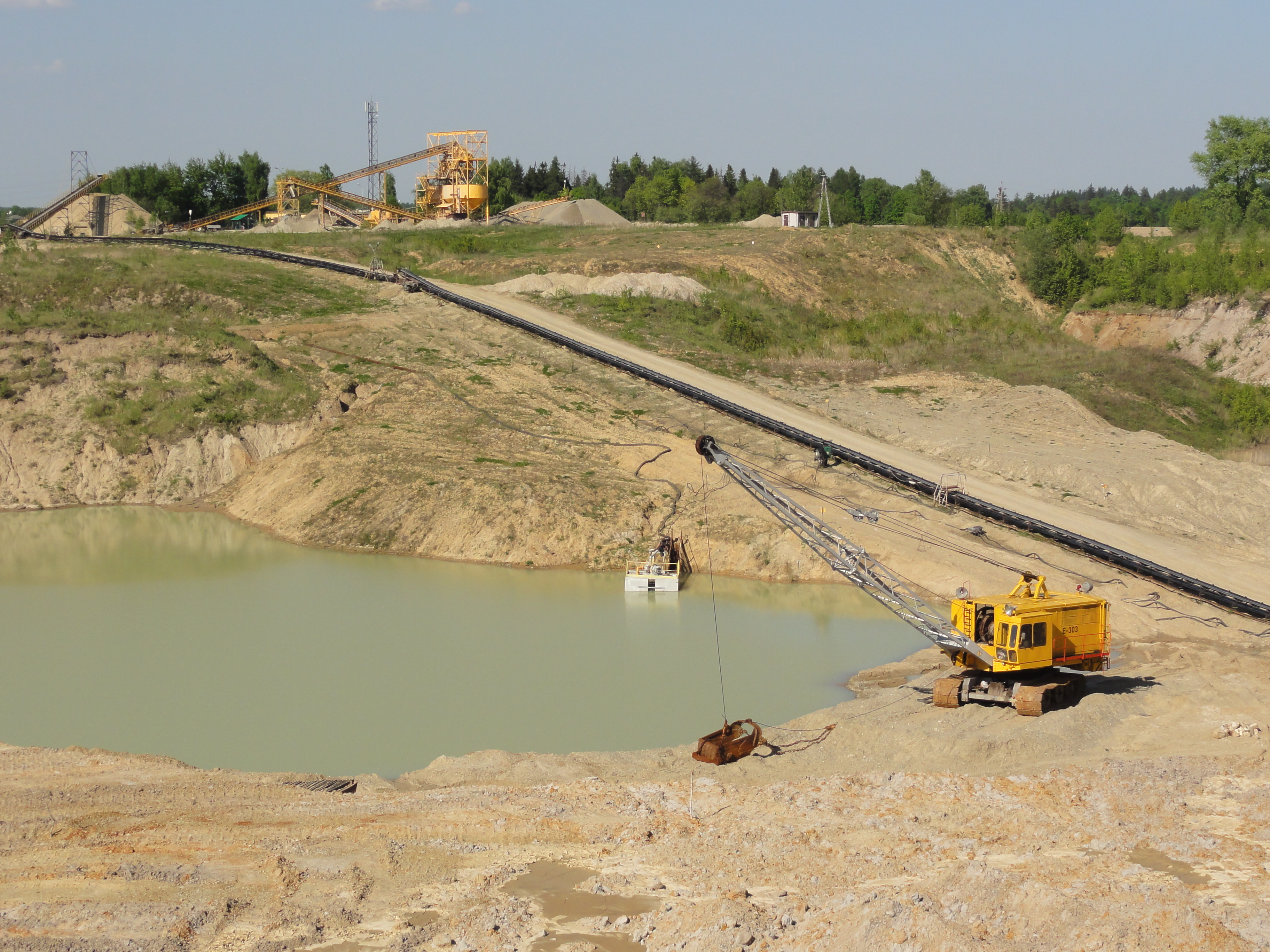 Gravel pit in Kończyce Wielkie